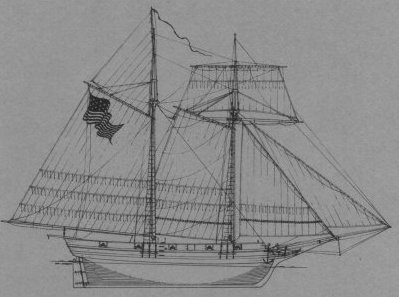 The USS Scourge, a War of 1812 vessel that served on the upper lakes.